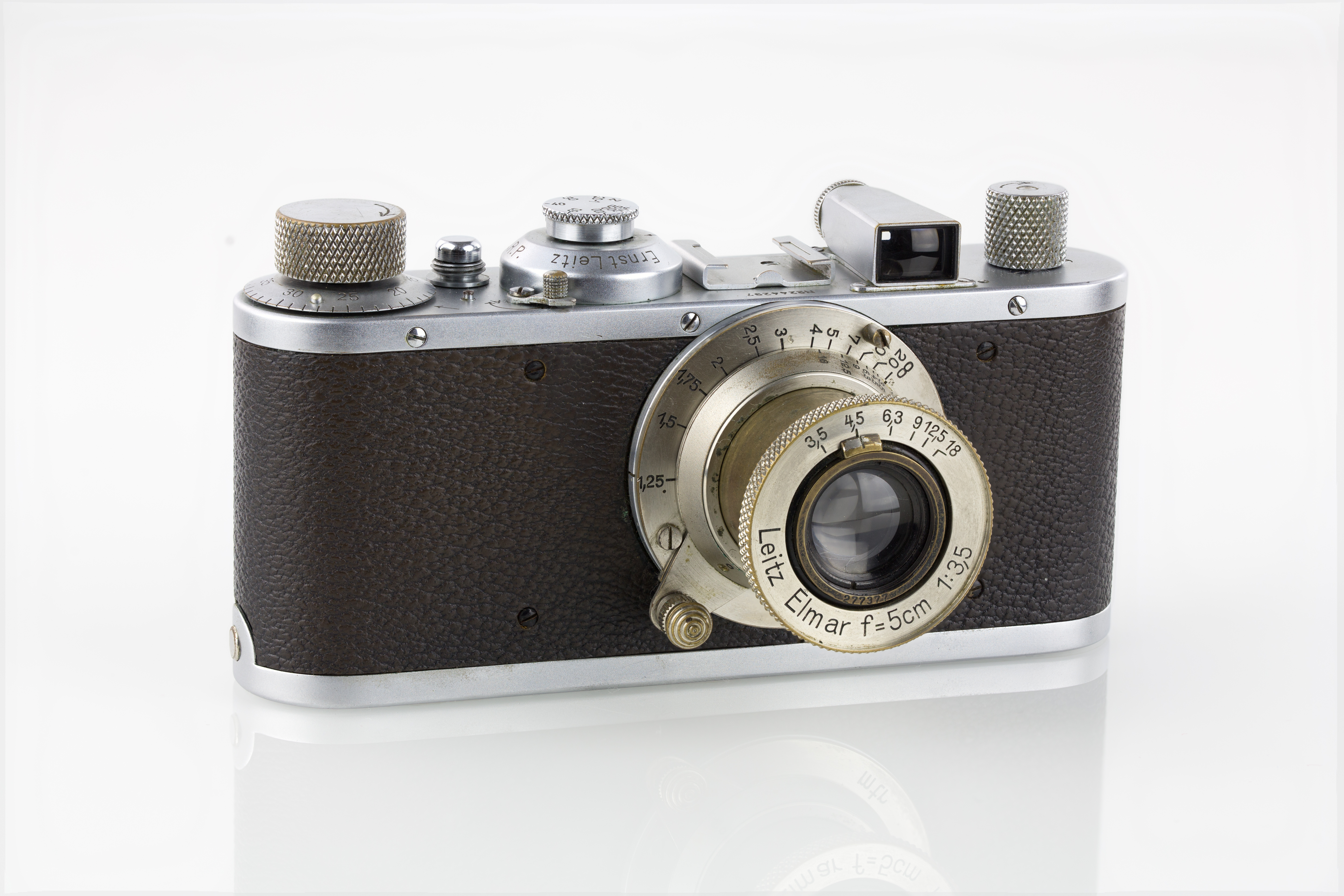 Leica Standard, produced in 1937 to 1938, with Leitz Elmar 50mm f/3.5 lens